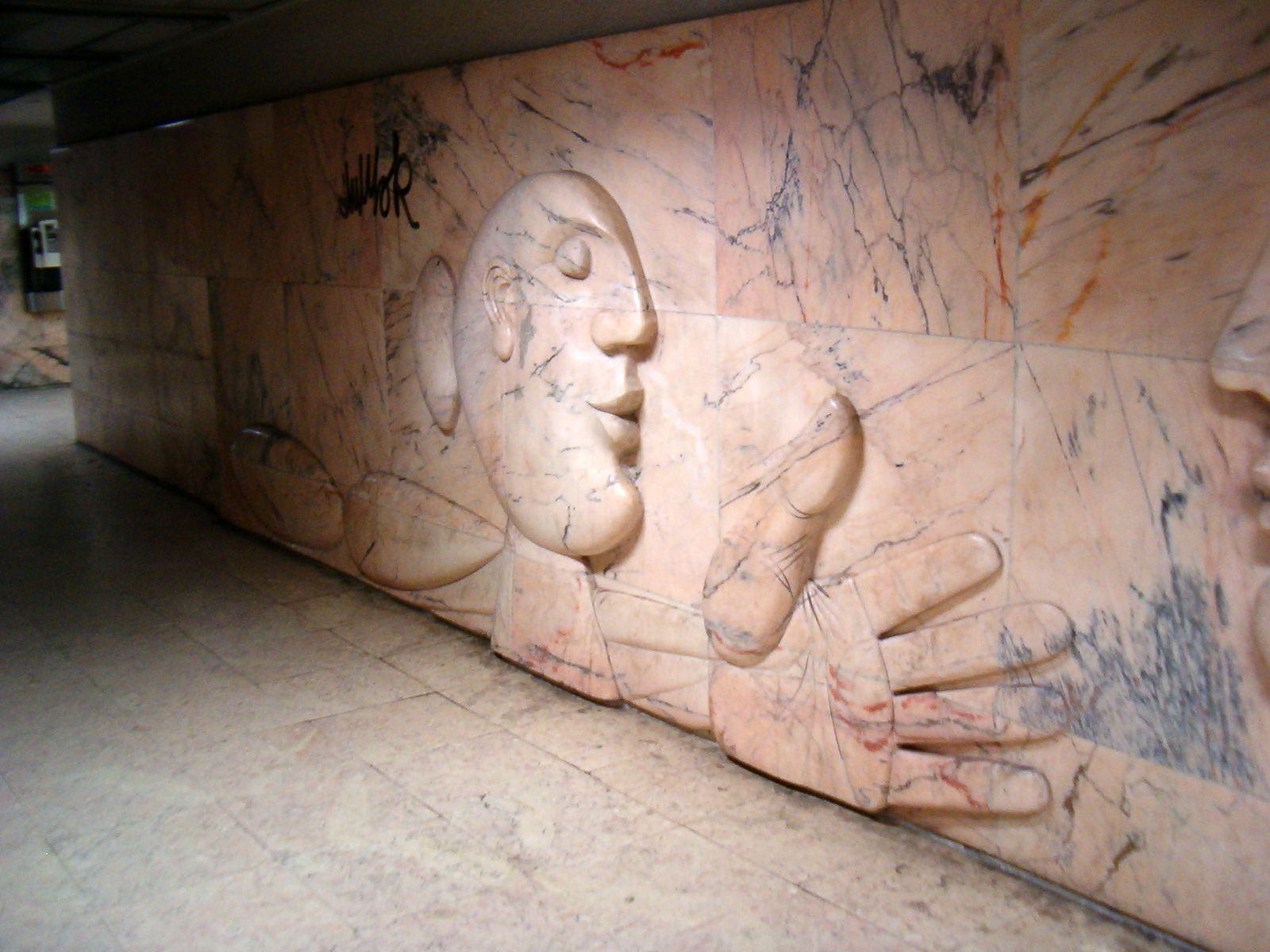 Metro station Saldanha (Lisboa)